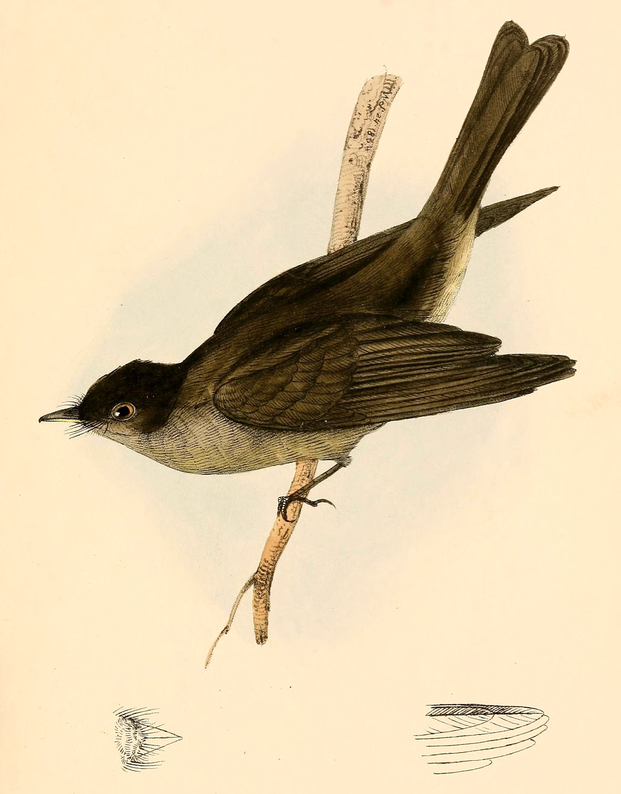 Tyrannula curtipes = Contopus cinereus (Tropical Pewee)